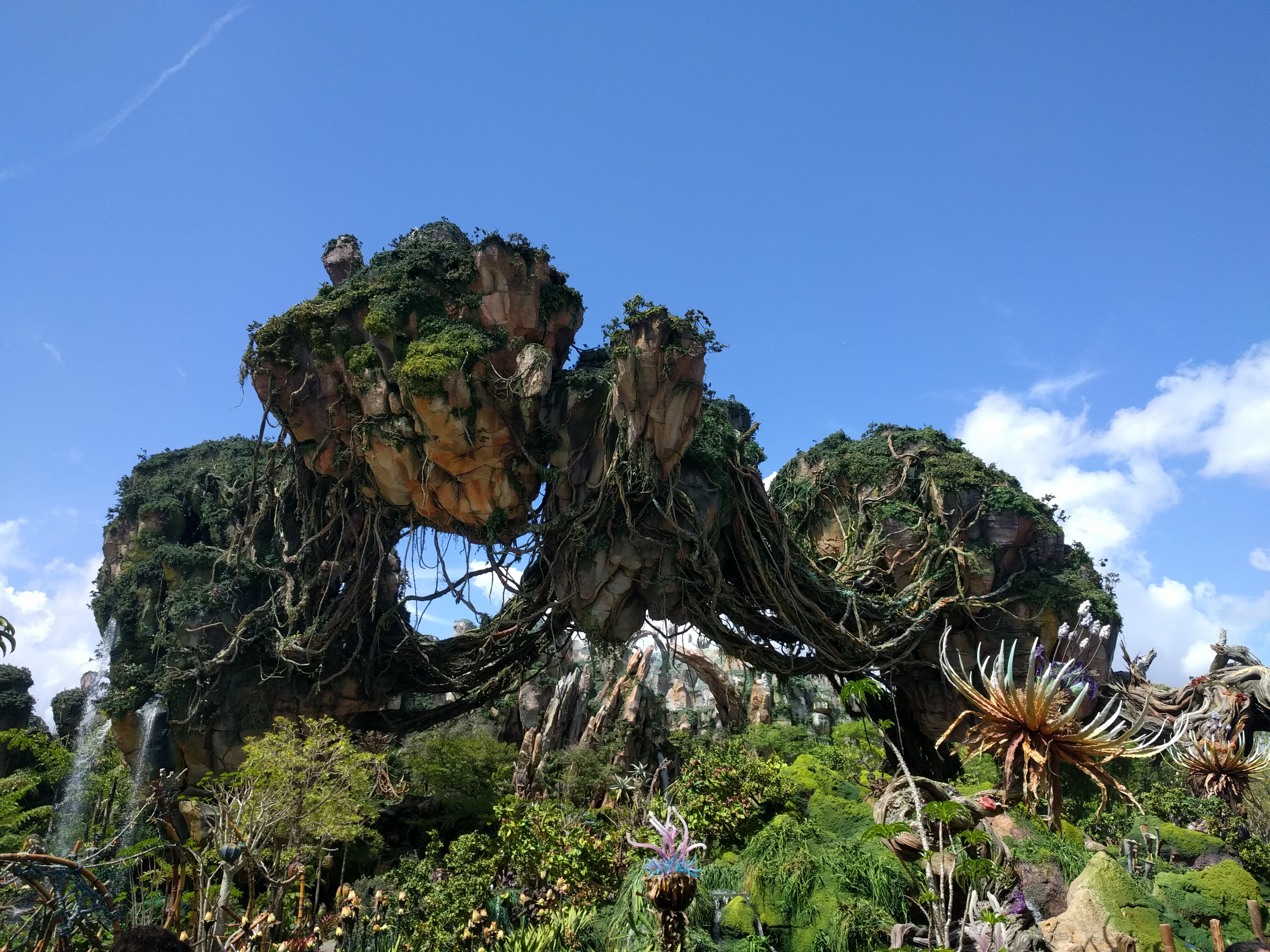 Cast Pongu (Party) at Pandora-The World of Avatar